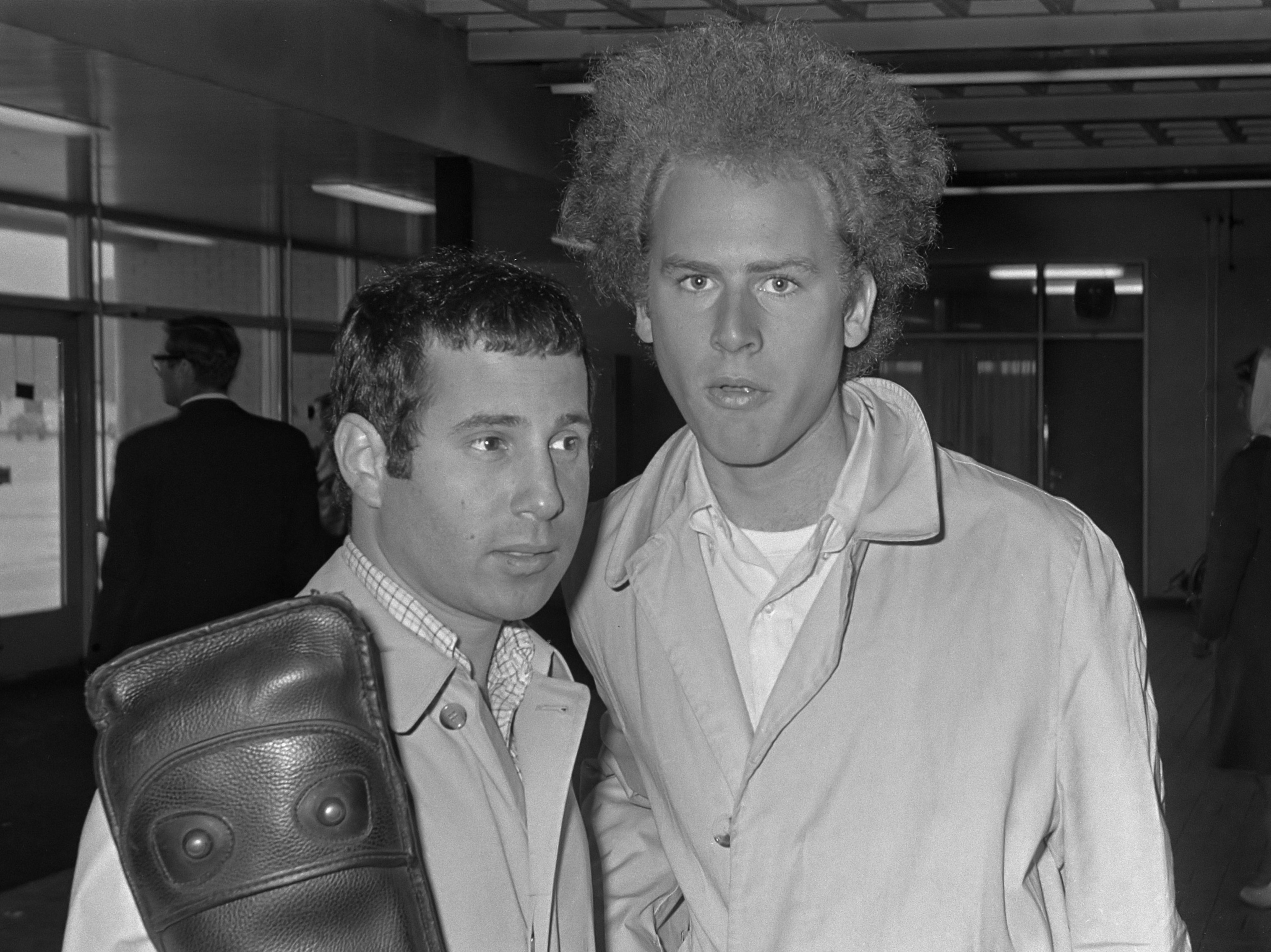 Simon & Garfunkel arrive at Schiphol Airport, The Netherlands in 1966.